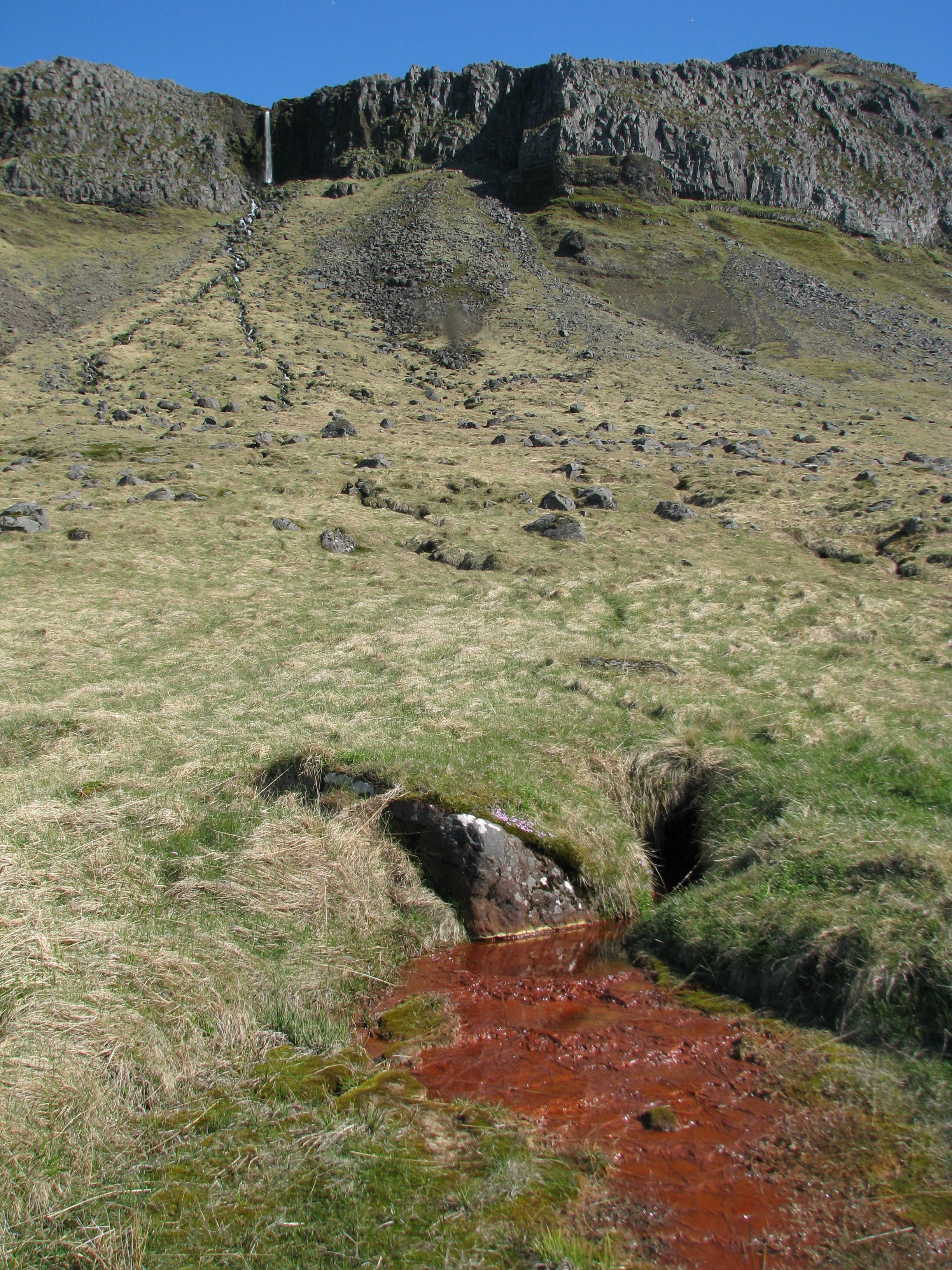 The Kötlufoss, a waterfall in Iceland. In the foreground a mineral spring: an ölkelda.